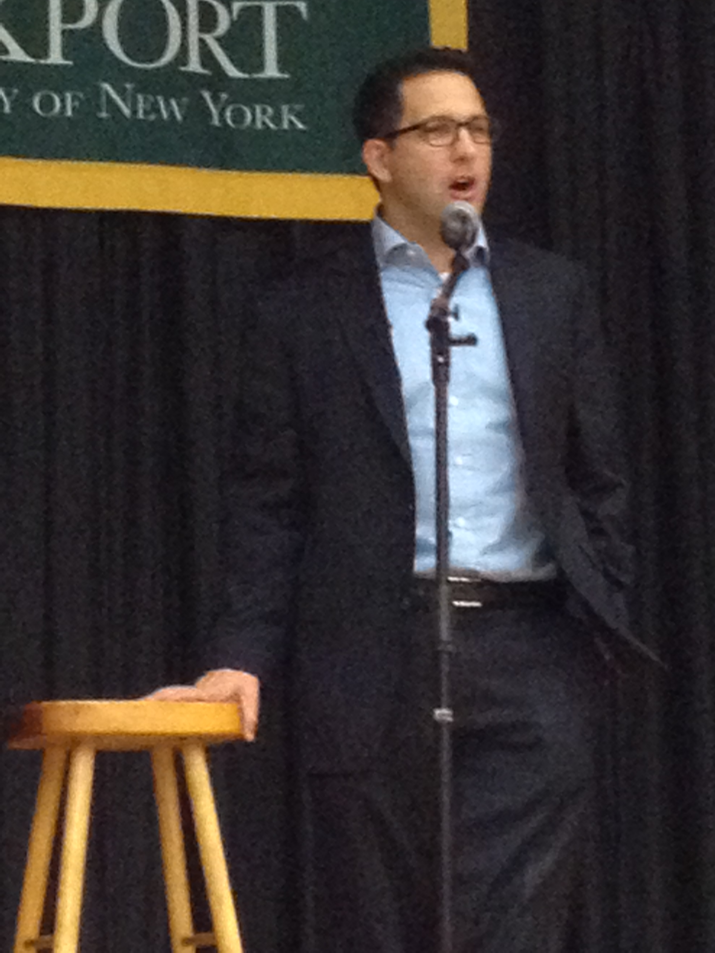 Adam Schefter speaking in November 2013